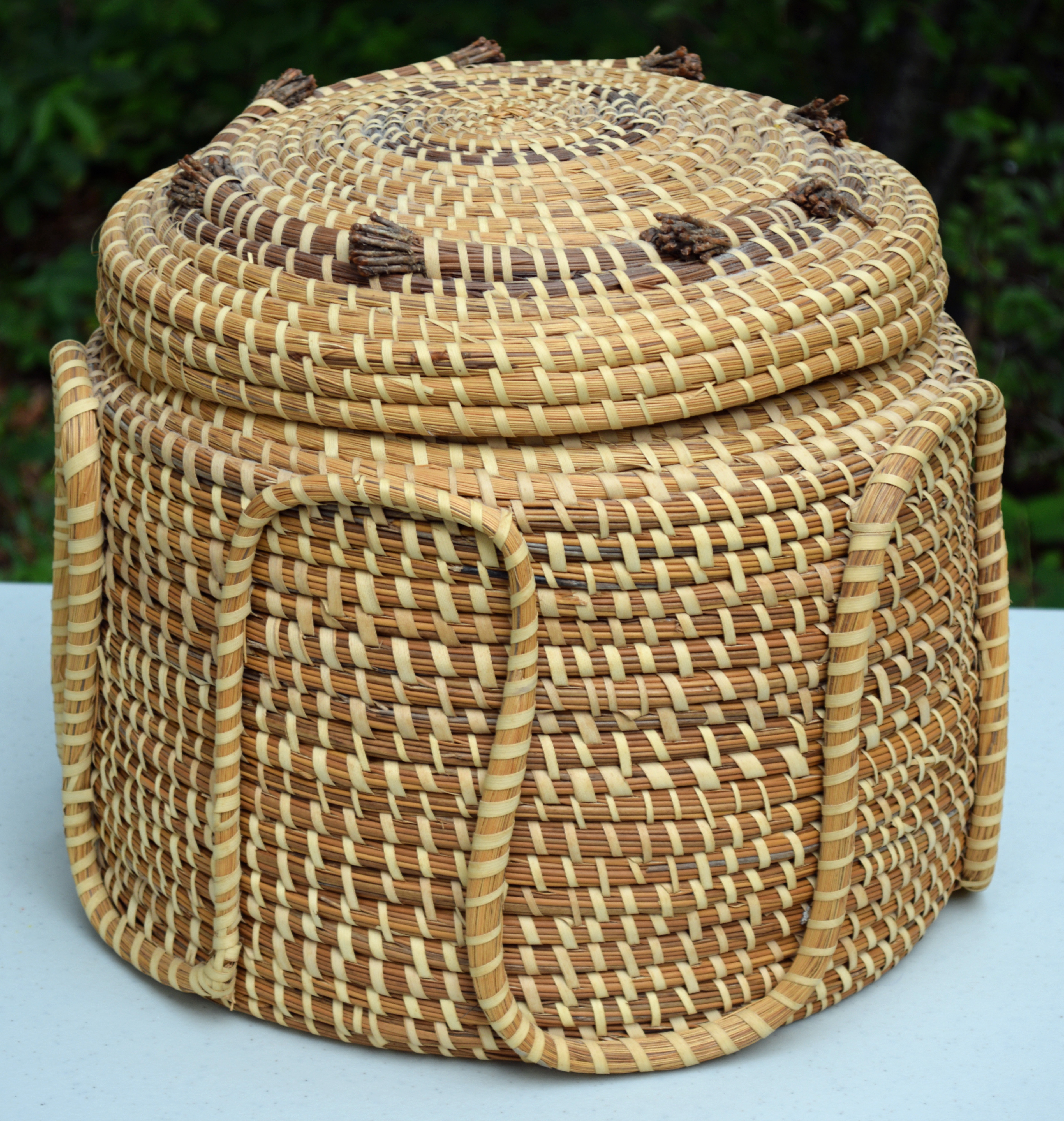 Straw basket made by the Gullah culture of coastal Georgia & South Carolina, USA